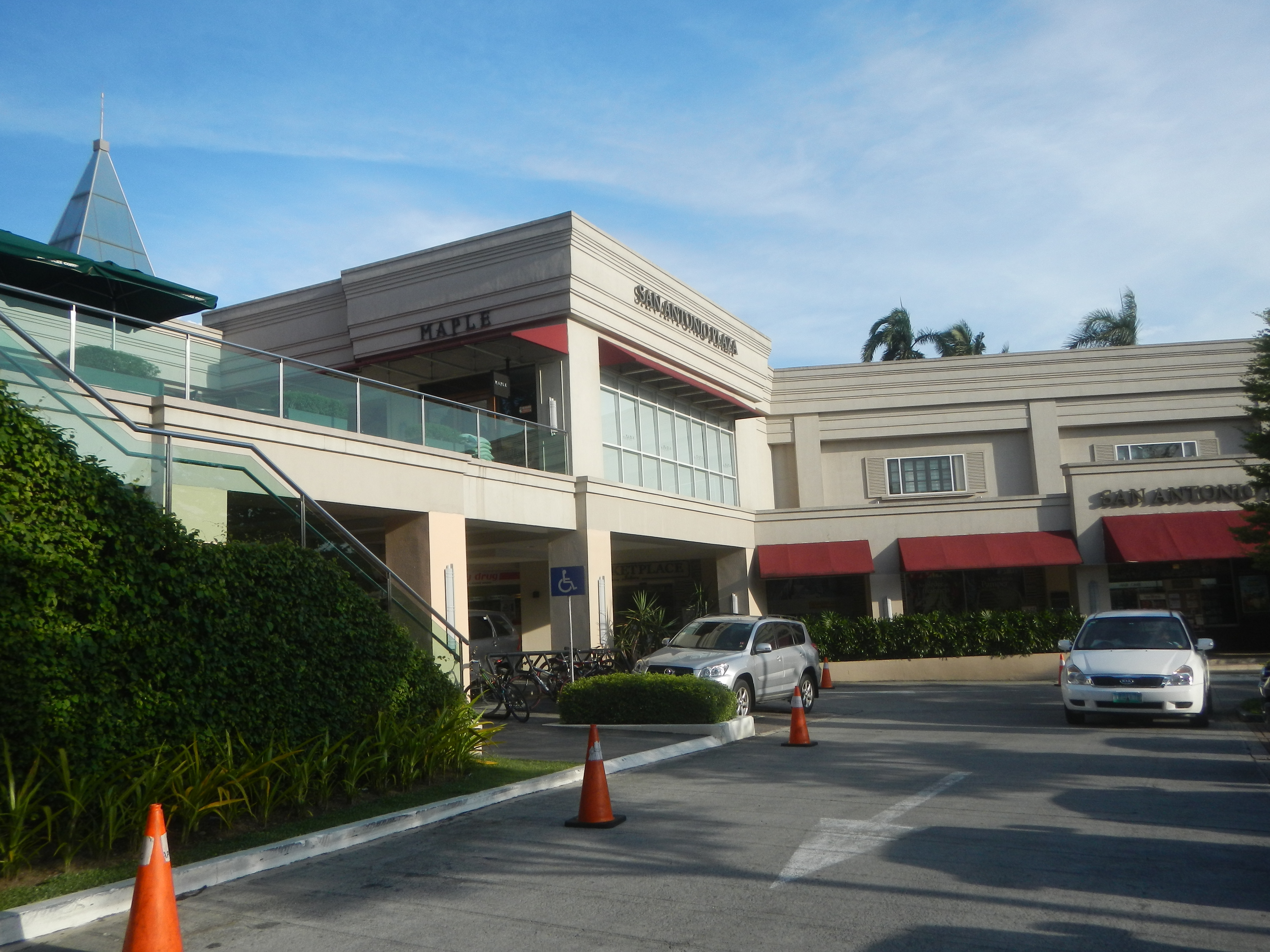 San Antonio Plaza McKinley Road Forbes Park, Makati City (Note: Judge Florentino Floro, the owner, to repeat, Donor Florentino Floro of all these photos hereby donate gratuitously, freely and unconditionally all these photos to and for Wikimedia Commons, exclusively, for public use of the public domain, and again without any condition whatsoever).